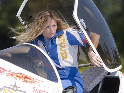 Svetlana Kapanina in a Sukhoi Su-26M (LY-AKG, cn 06-03) owned by Jurgis Kayris during the Otopeni Airshow 2011.